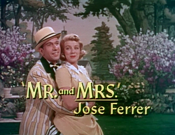 Screenshot from the trailer of the film "Deep In My Heart" (1954) showing Jose Ferrer and Rosemary Clooney.